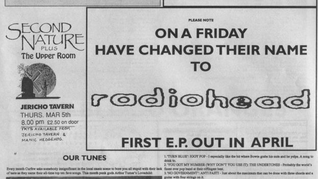 Scan of an advert placed in Oxford's Curfew magazine by Radiohead, announcing their name change and debut EP.